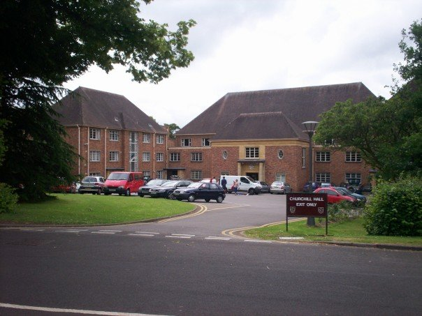 Churchill Hall of Residence, University of Bristol Main entrance to Churchill Hall, University of Bristol. The main block contains the dining room and kitchens, Juior and Senior Common Rooms, the library, and the bar.